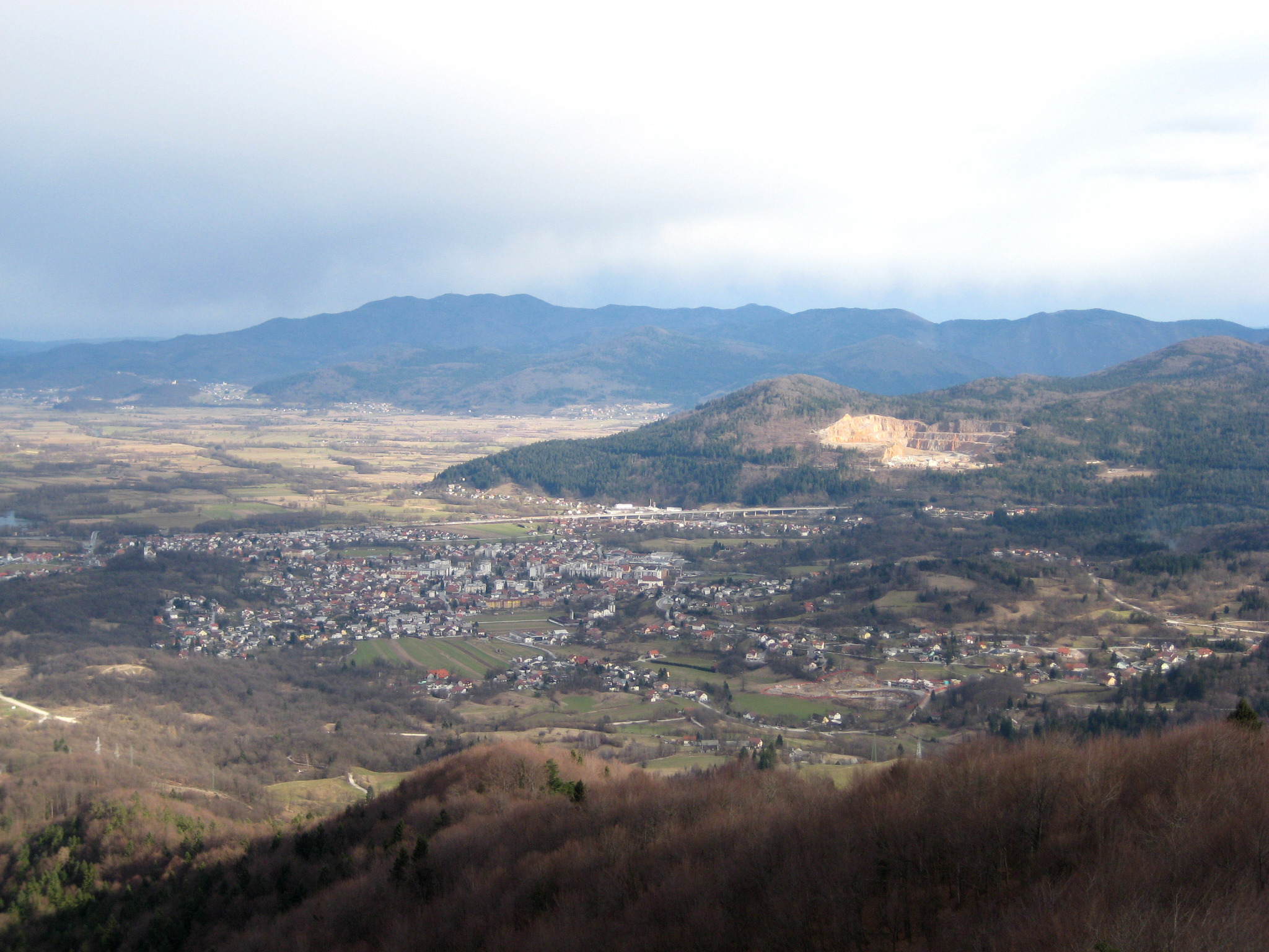 Vrhniika, town in Slovenia